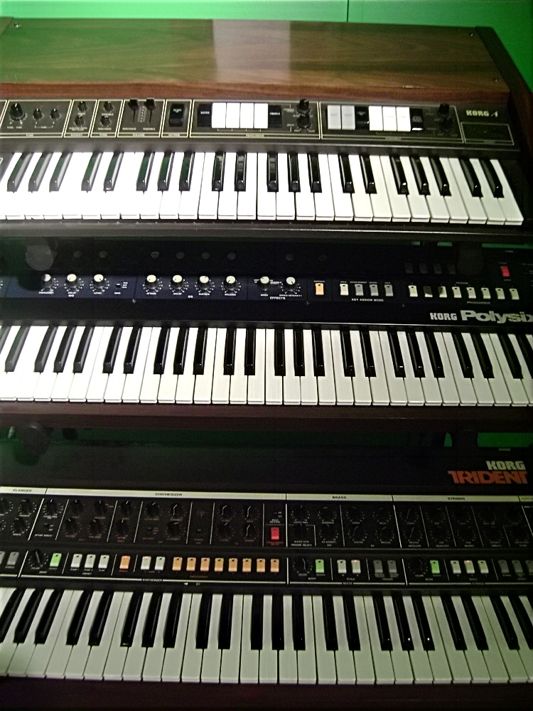 S'more KORGs. A recent acquisition at the Cantos Foundation museum of keyboard & electronic instruments. KORG donated these beauties to the Cantos Foundation. There's another shot of a whole wall of them. An idea was dropped to have a KORG 10 on the Nintendo DS emulator on display as well. Would be weird but awesome. Just a thought... Visited the Cantos foundation museum of electronic instruments and keyboards in February 2009 and got a lovely tour of the facilities. Took a lot of pictures & videos. Korg Lambda (1979) Korg Poly Six (1981) Korg Trident (1980)